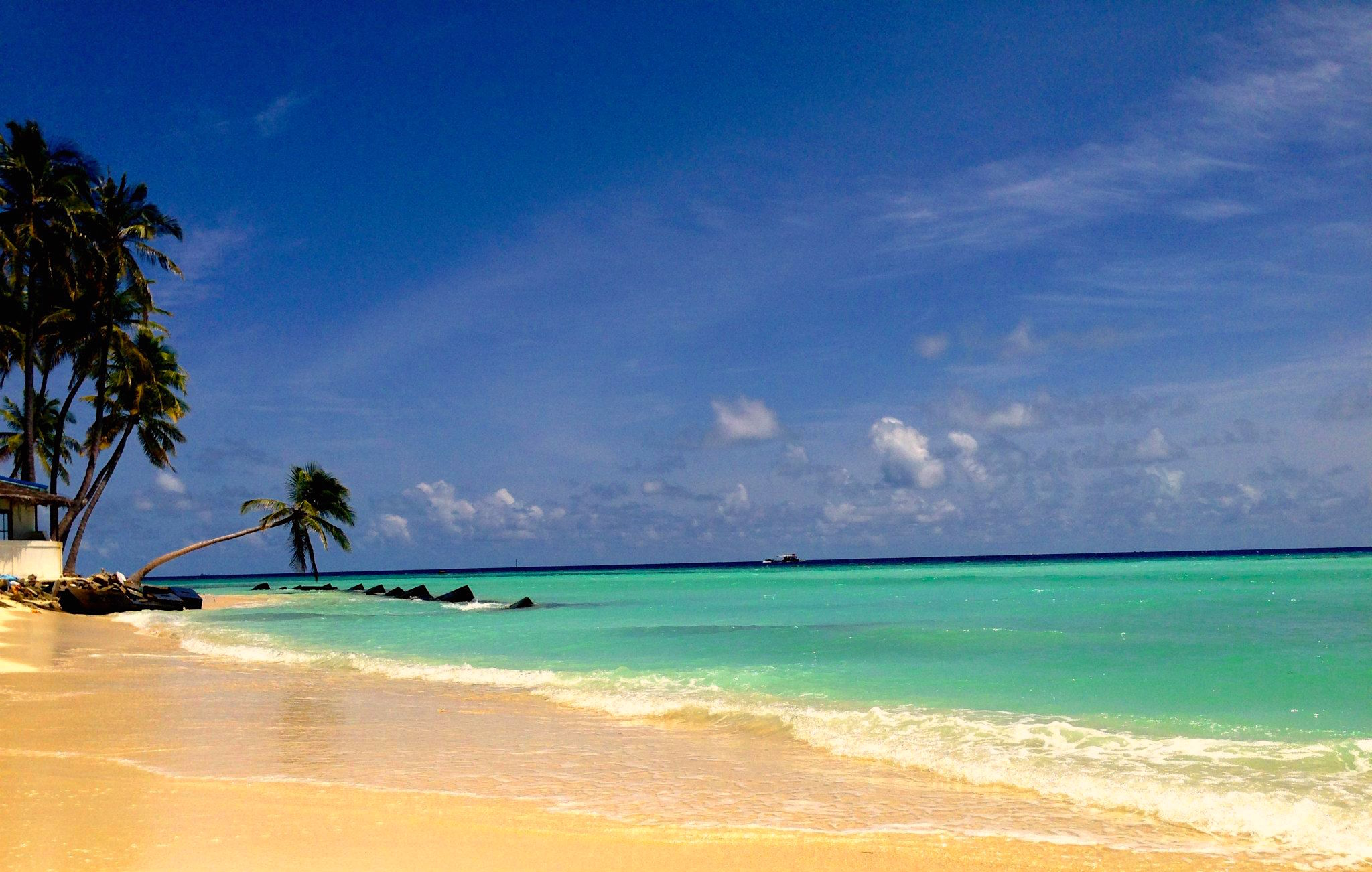 A photo of the beach outside Kaani Beach Hotel.